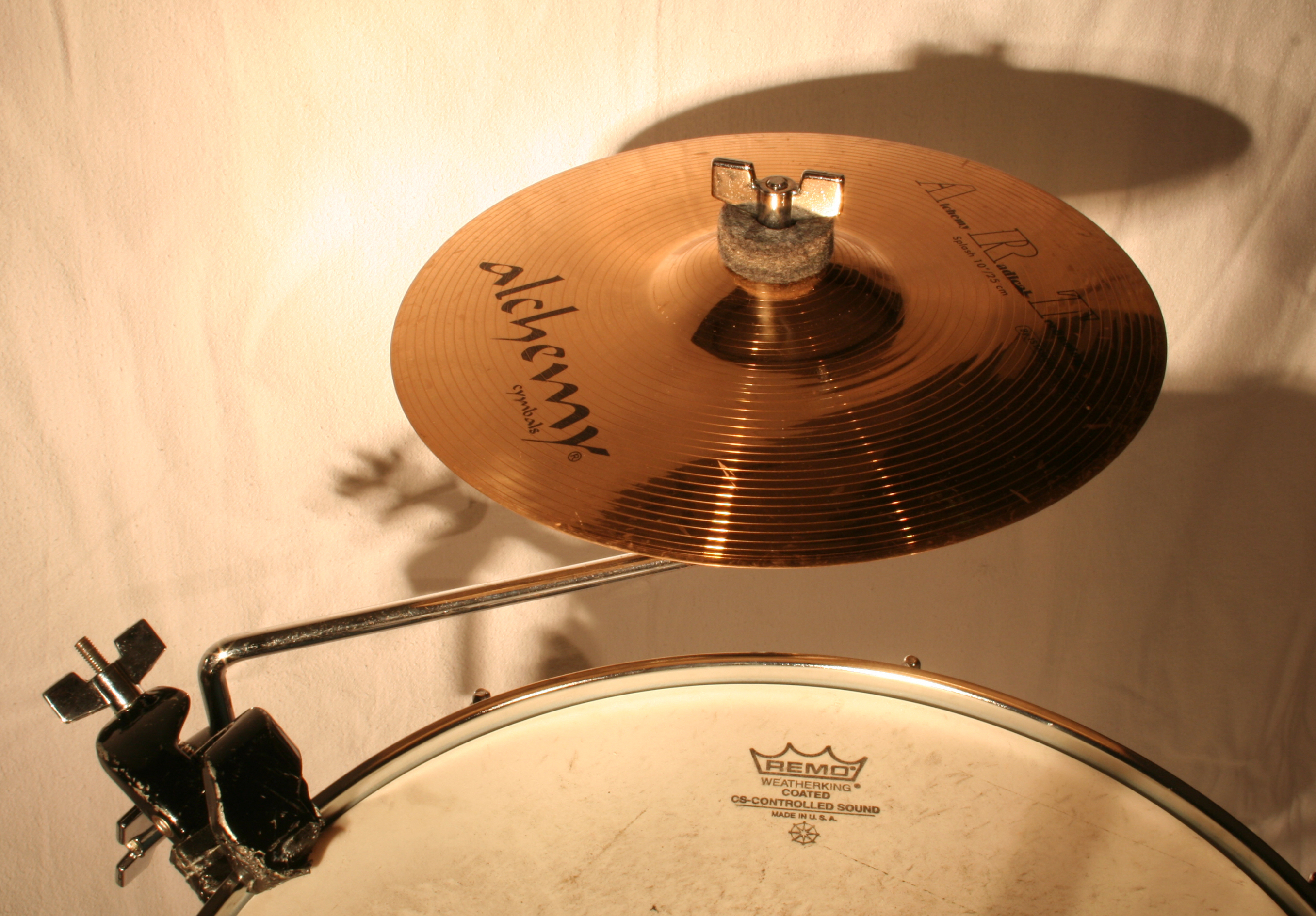 10 inches Splash – Cymbal made by alchemy